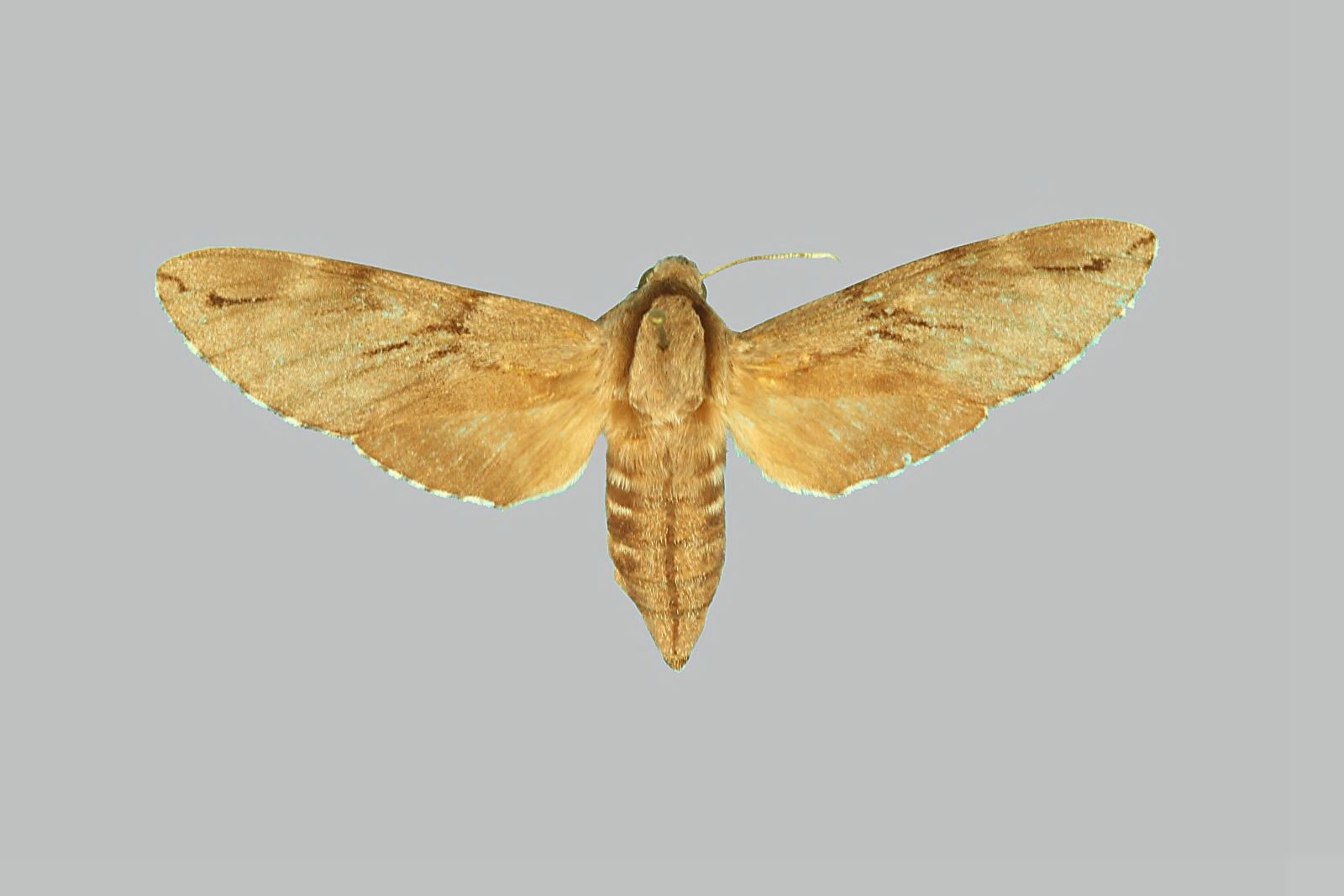 Sphinx caligineus sinicus, female, upperside. China, Shanghai